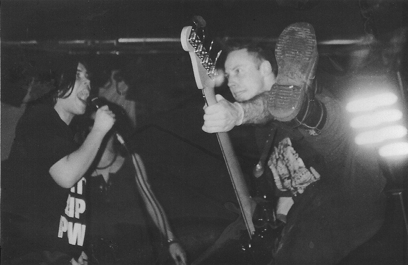 Silverfish, Tufnell Park Dome, London 1991 Silverfish Quality Time photo set. Neate photos facebook page. More neate photos.